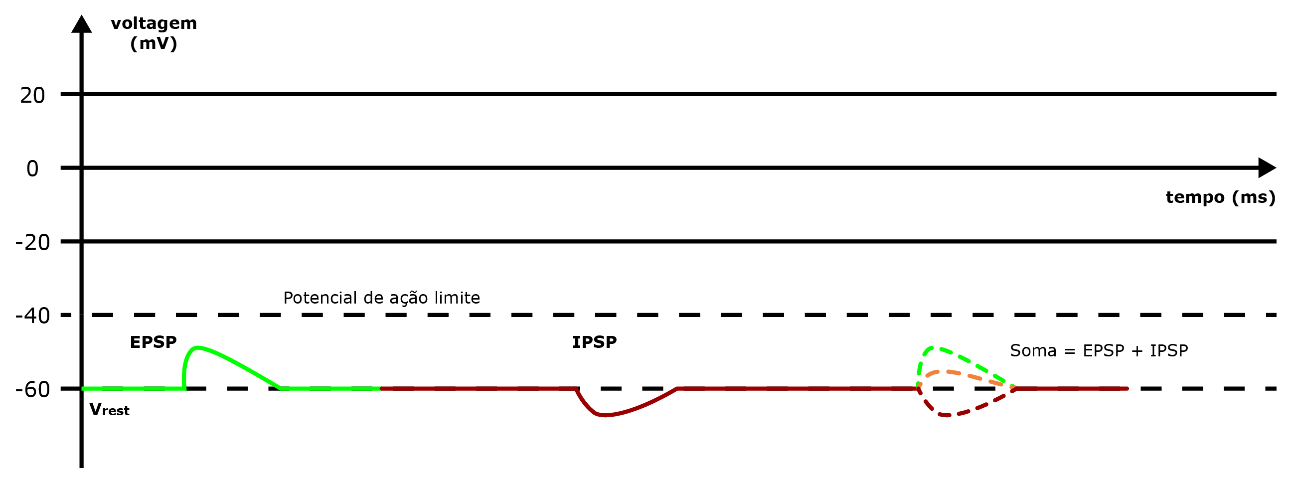 Graph displaying an EPSP, an IPSP, and the summation of an EPSP and an IPSP. When the two are summed together the potential is still below the action potential threshold.